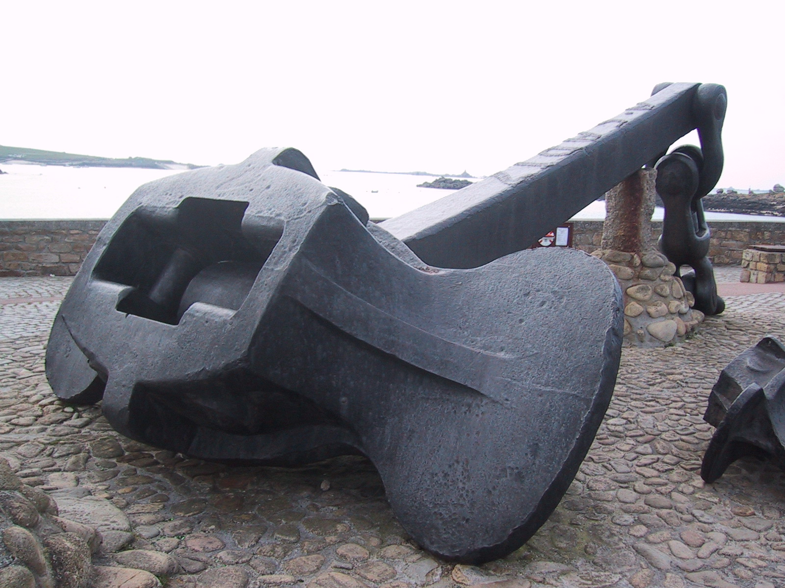 Anchor of the Amoco Cadiz in Portsall, noth-west of Bretagne, France